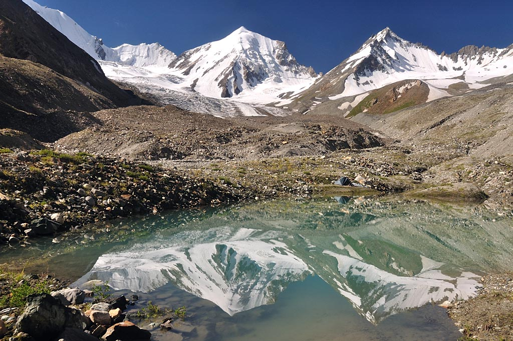 Western Masherbrum Mountains. The Pass between the mountains in the middle is called Skoro La. It connects Askoli in the north with the lower Shigar valley.